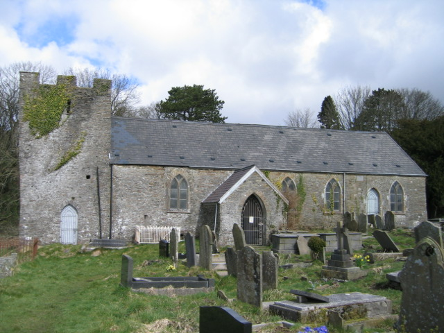 St Ciwg's church, Llangiwg, near Pontardawe, Wales. Now closed awaiting a decision about its future. The roof was repaired a few years ago but was then stolen. A local preservation group is trying to find a community use for the building.